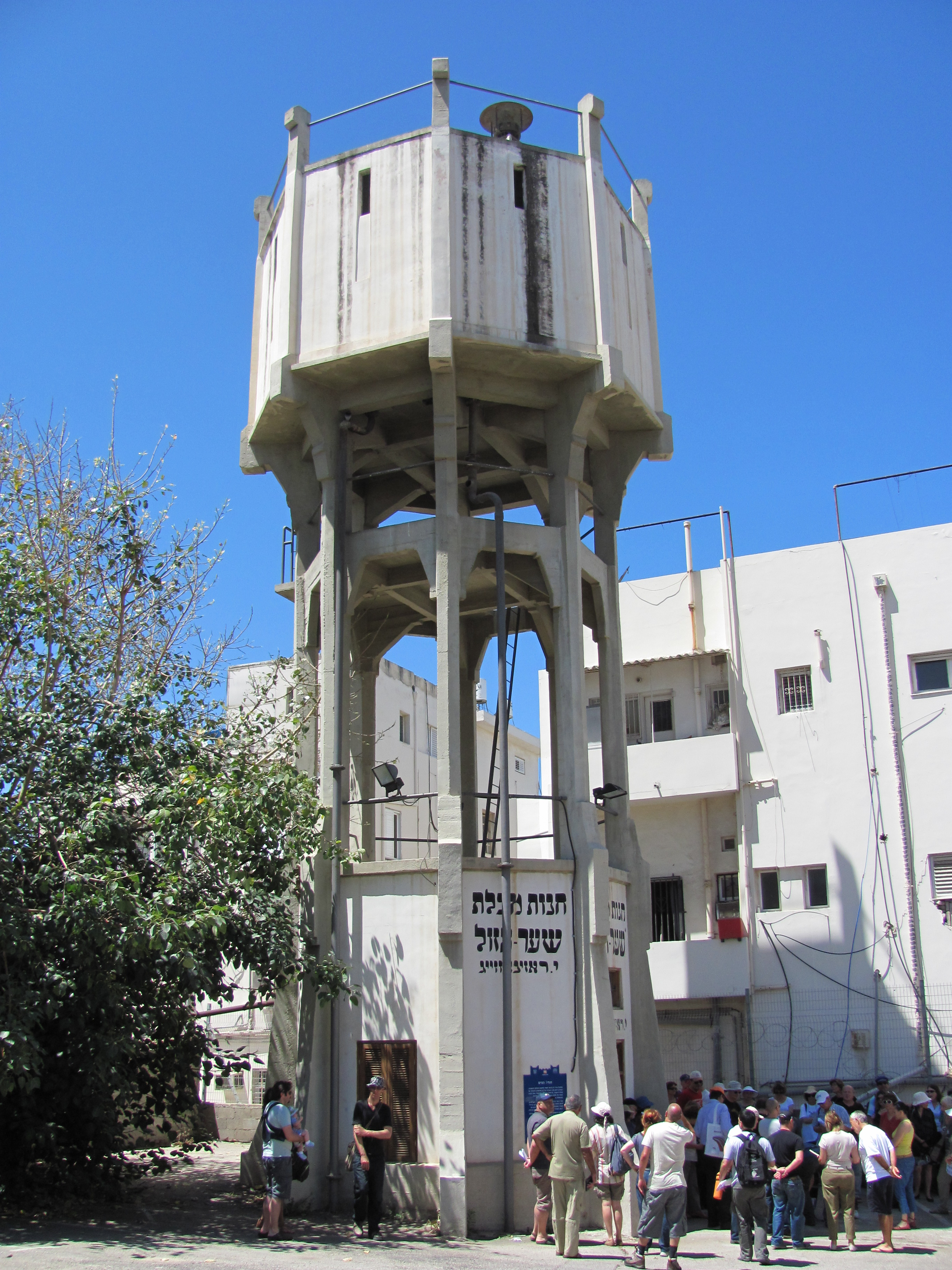 An old water tower on Hachashmal street in Tel Aviv.